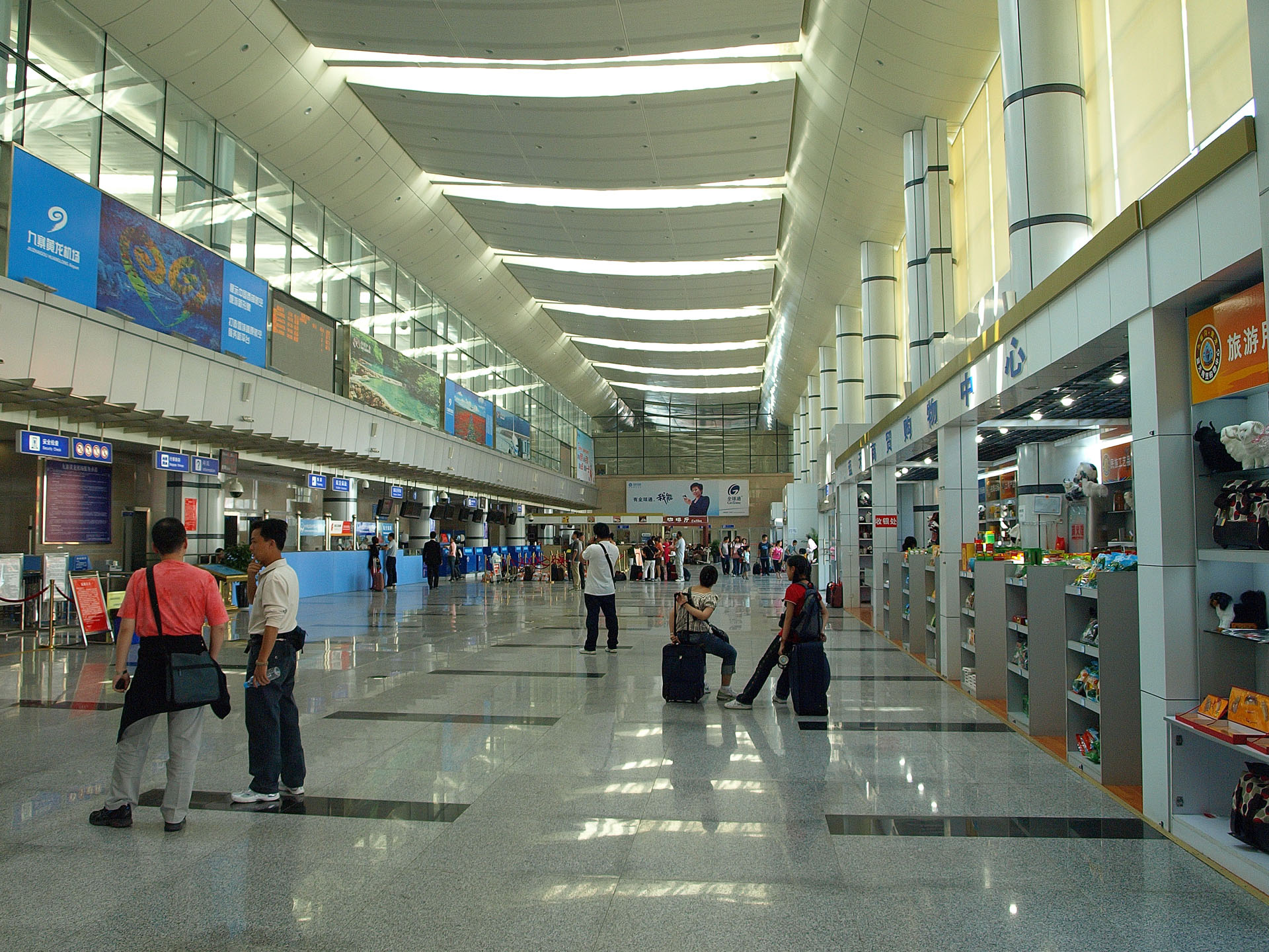 Sichuan Jiuzhaihuanglong Airport(Check-in area)